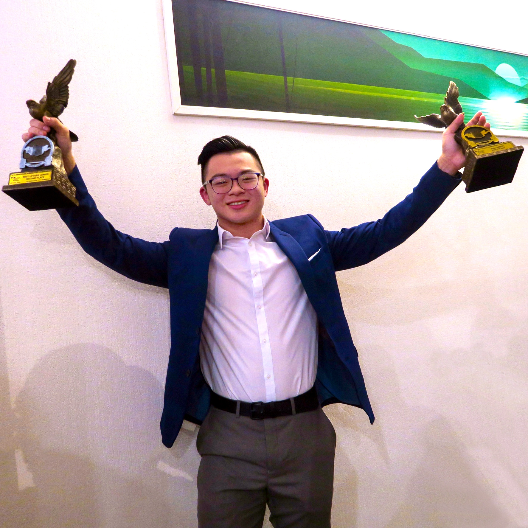 Yap finishes with a Gold and being the 3-time Asian champion.